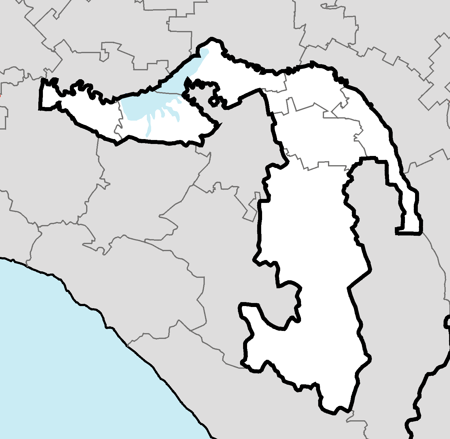 Administrative map of Adygeya (Russia) in Mercator projecton.